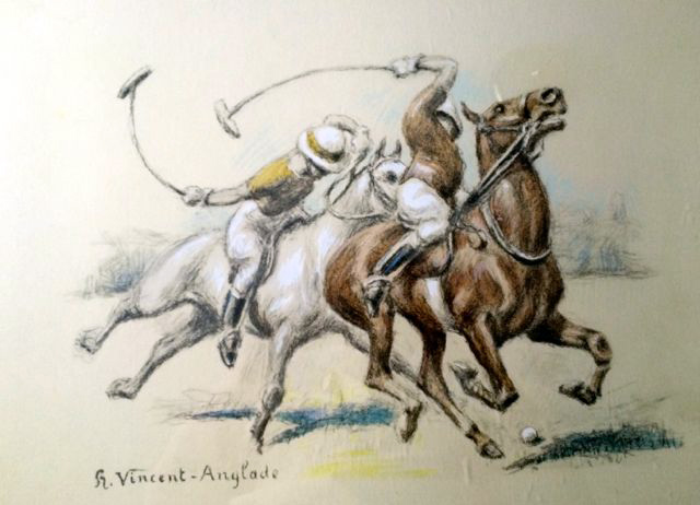 Polo Horses, by Henri Vincent-Anglade.